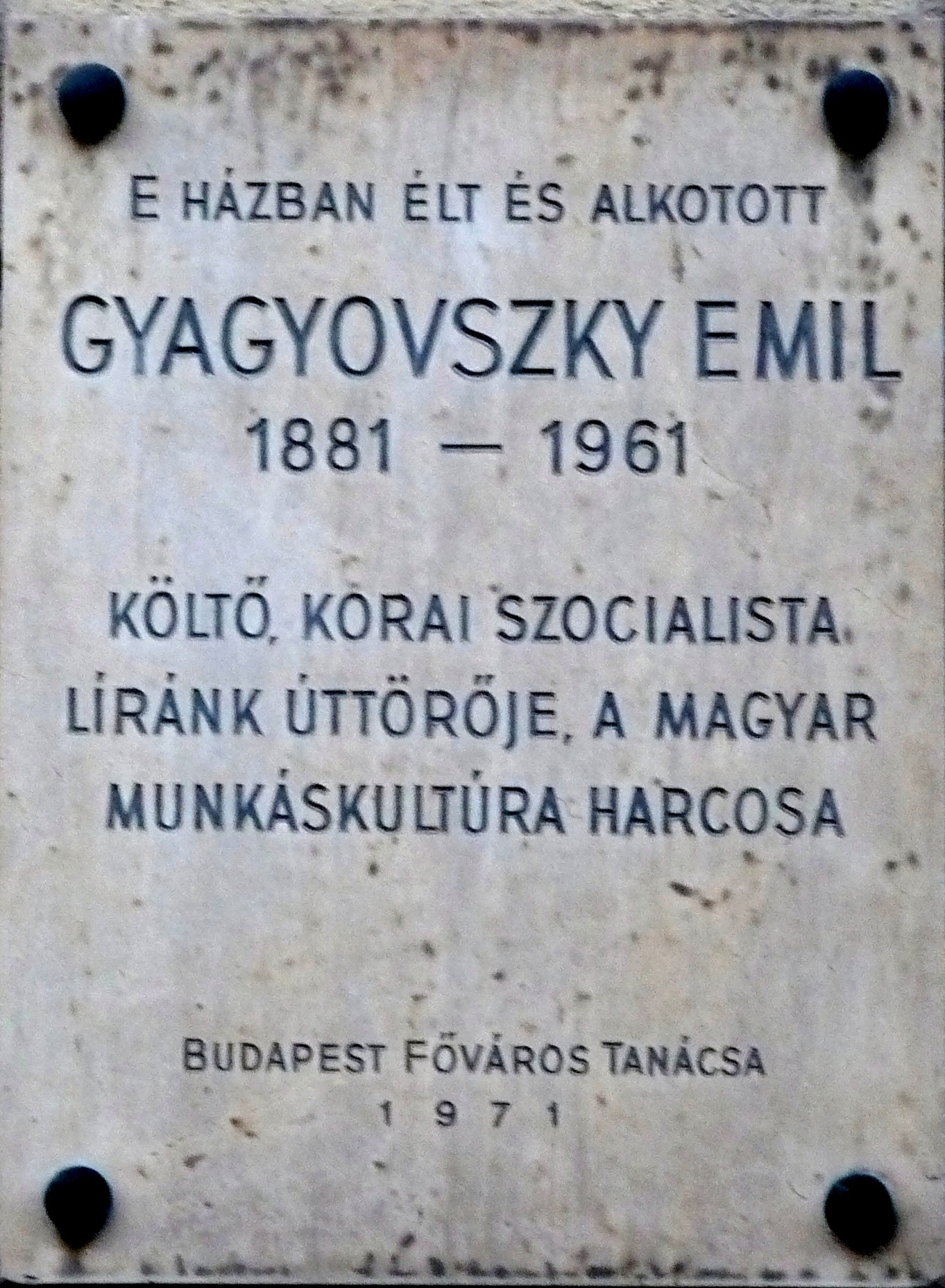 Emil Gyagyovszky commemorative plaque in Budapest District VII, Barcsay Street No 8.